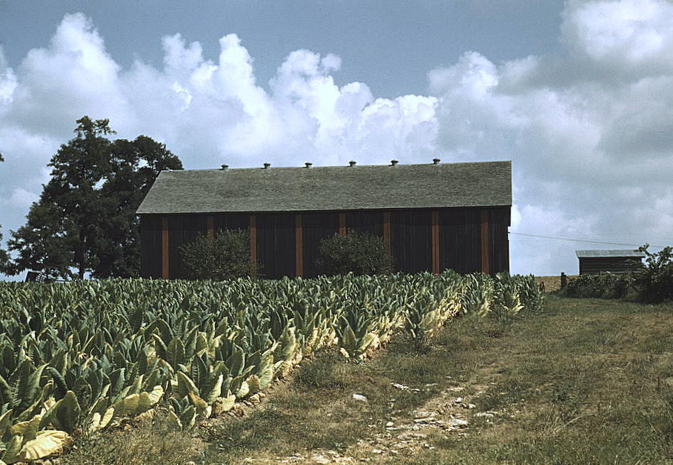 Field of Burley tobacco on farm of Russell Spears, drying and curing barn in the background, vicinity of Lexington, Kentucky, United States. Wolcott, Marion Post, 1910-, photographer. 1 slide : color. Notes: Title from FSA or OWI agency caption. Transfer from U.S. Office of War Information, 1944. Format: Slides--Color Part Of: Farm Security Administration - Office of War Information Collection 11671-11 (DLC) 93845501 General information about the FSA/OWI Color Photographs is available at Persistent URL: Call Number: LC-USF35-162